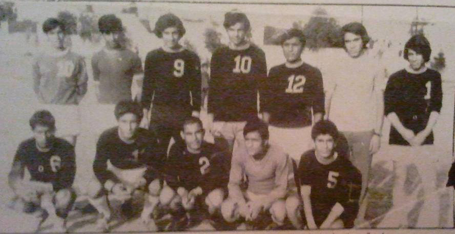 Hussein Saeed wearing number 10 with Al-Iskan Youth Centre in 1972